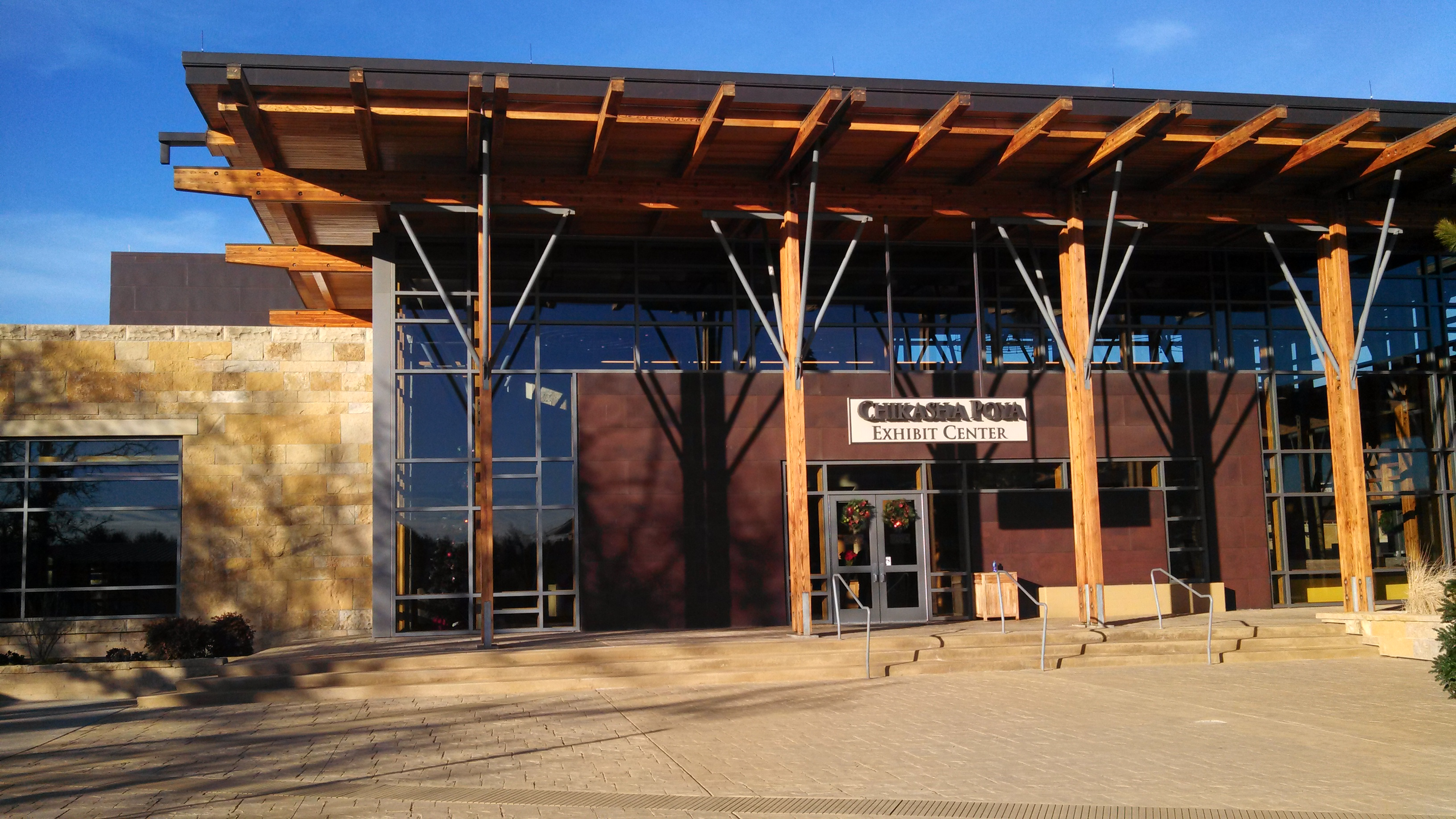 Chickasaw Cultural Center near Sulphur, Oklahoma; exhibits/museum building. December 2013.